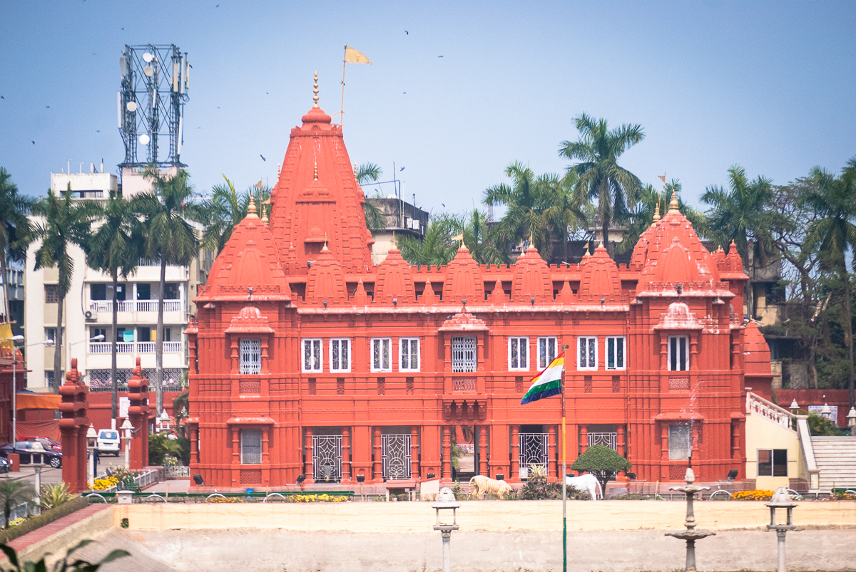 Belgachhia Pareshnath Mandir